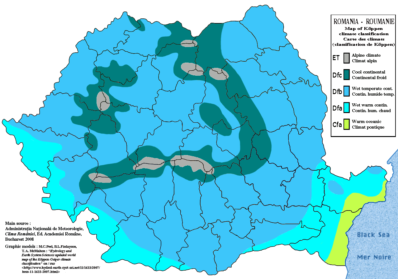 Romania map of Köppen climate classification, derivative work, more exactly according with Administrația Națională de Meteorologie, Clima României, Ed. Academiei Române, Bucharest 2008, from Ali Zifan's [1] & from File:World Koppen Classification (with authors).svg